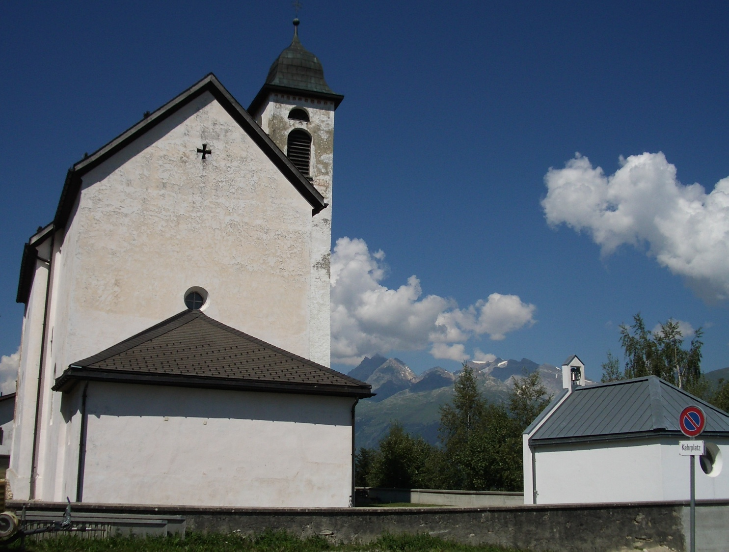 Surcuolm GR, Switzerland self-made, July 2006